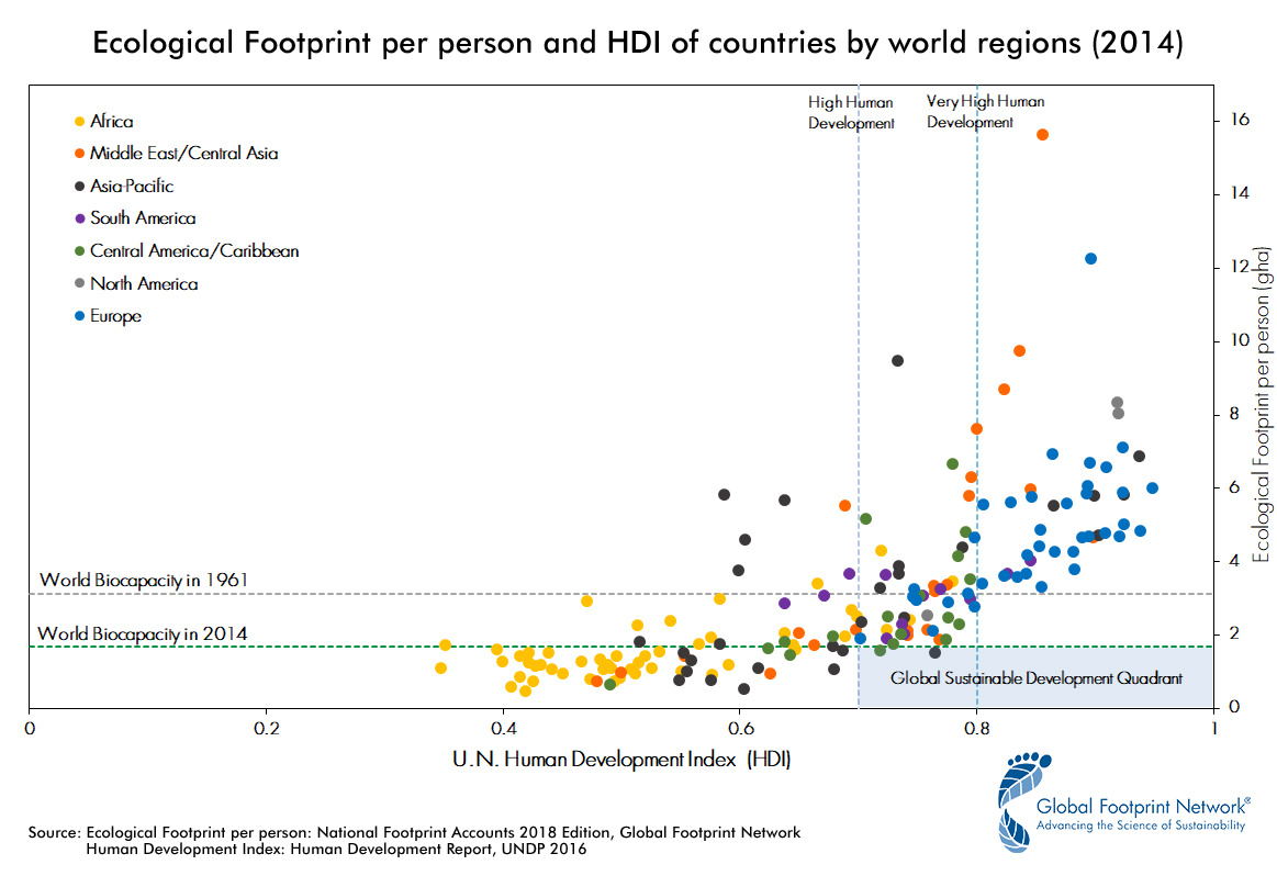 One way to assess sustainable development is by using the Ecological Footprint and the Human Development Index (HDI). An Ecological Footprint less than 1.7 global hectares per person makes those resource demands globally replicable. The United Nations considers an HDI over 0.8 to be “very high human development.” Measuring these two variables reveals that very few countries come close to achieving sustainable development, despite growing adoption of the Sustainable Development Goals and other policies that strive to increase well-being without sacrificing the environment.